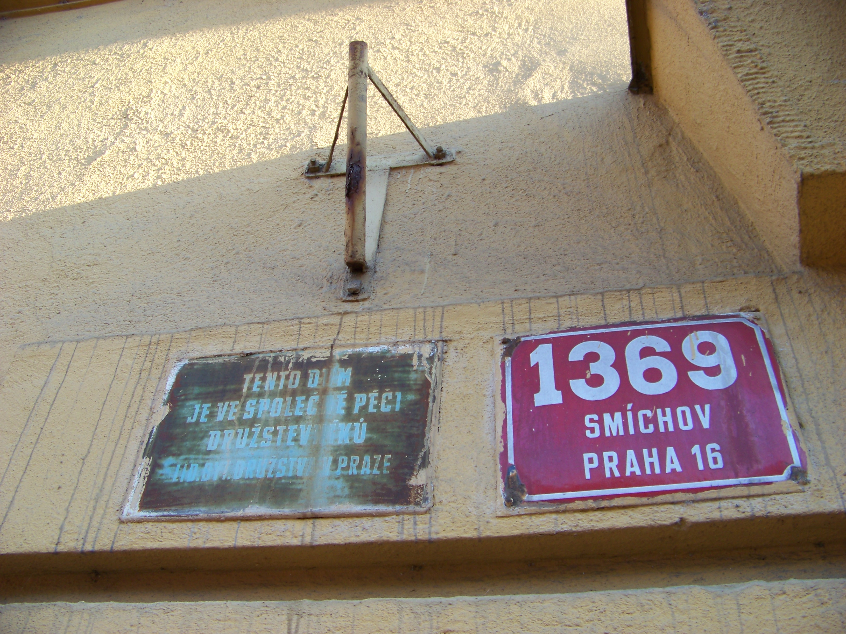 Prague-Smíchov, the Czech Republic. Na Václavce 1369/24, signs.